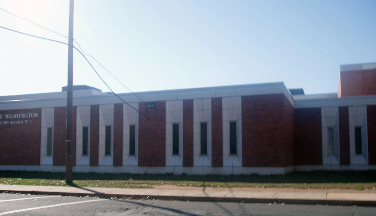 George Washington Academy School #1, Elizabeth, New Jersey